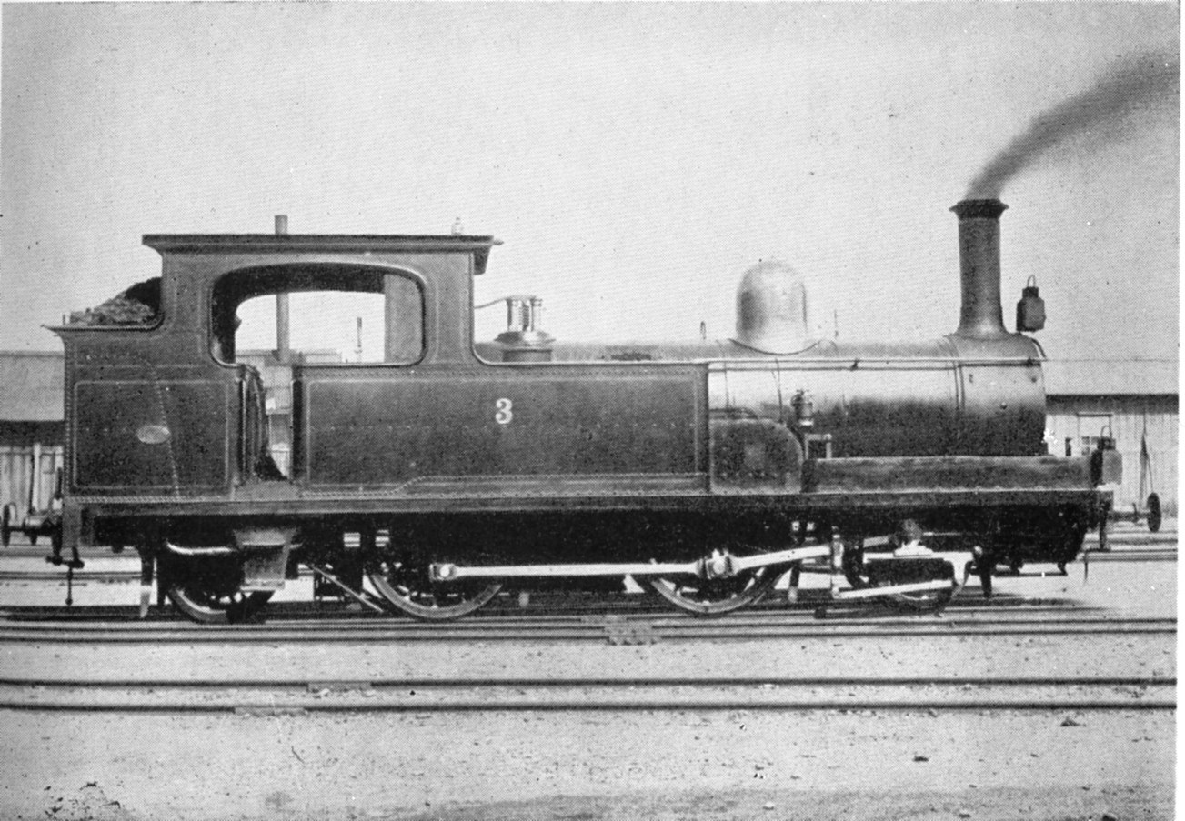 Japan Government Railway type 600 steam locomotive